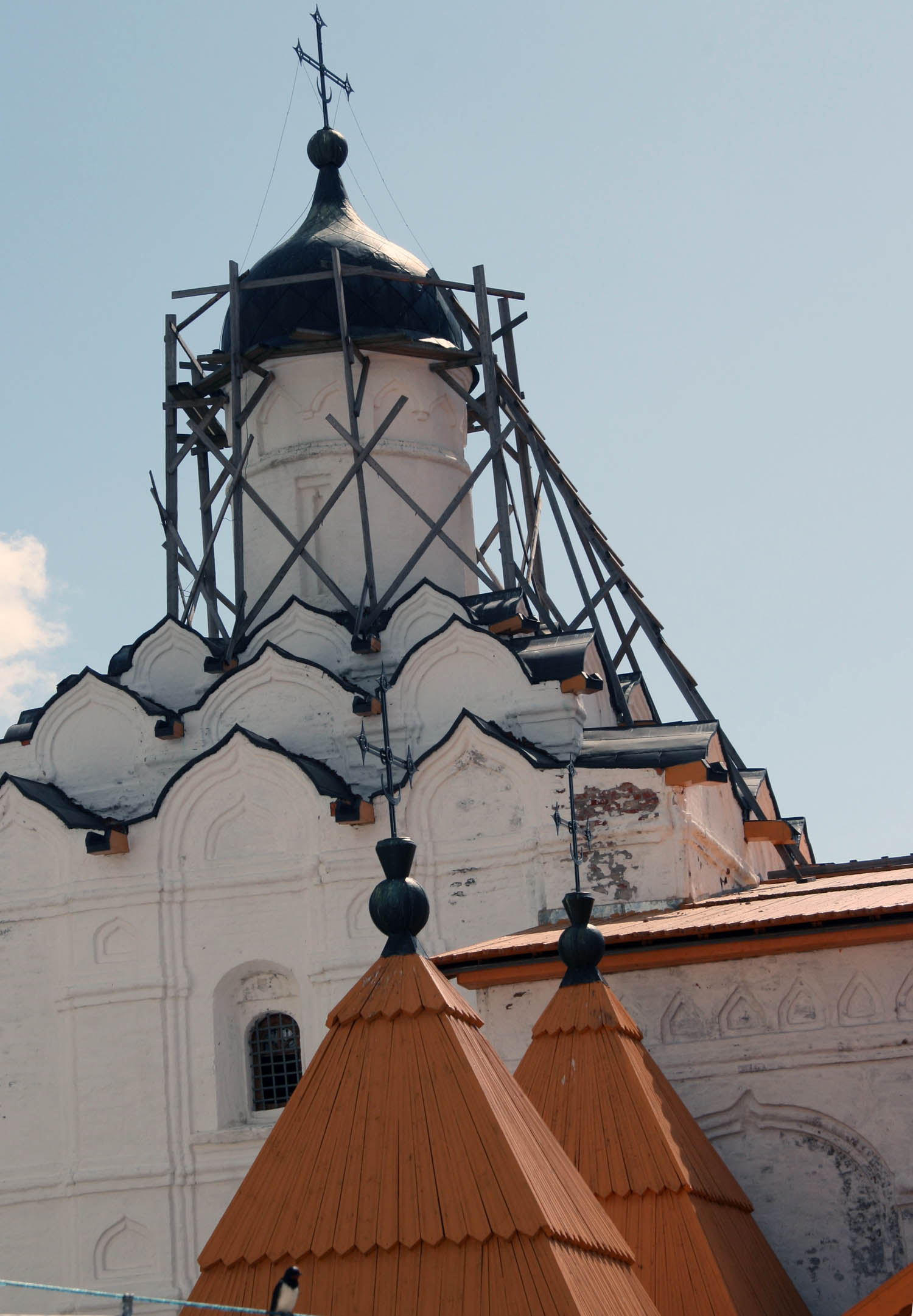 Alexander-Svirsky Monastery, Russia